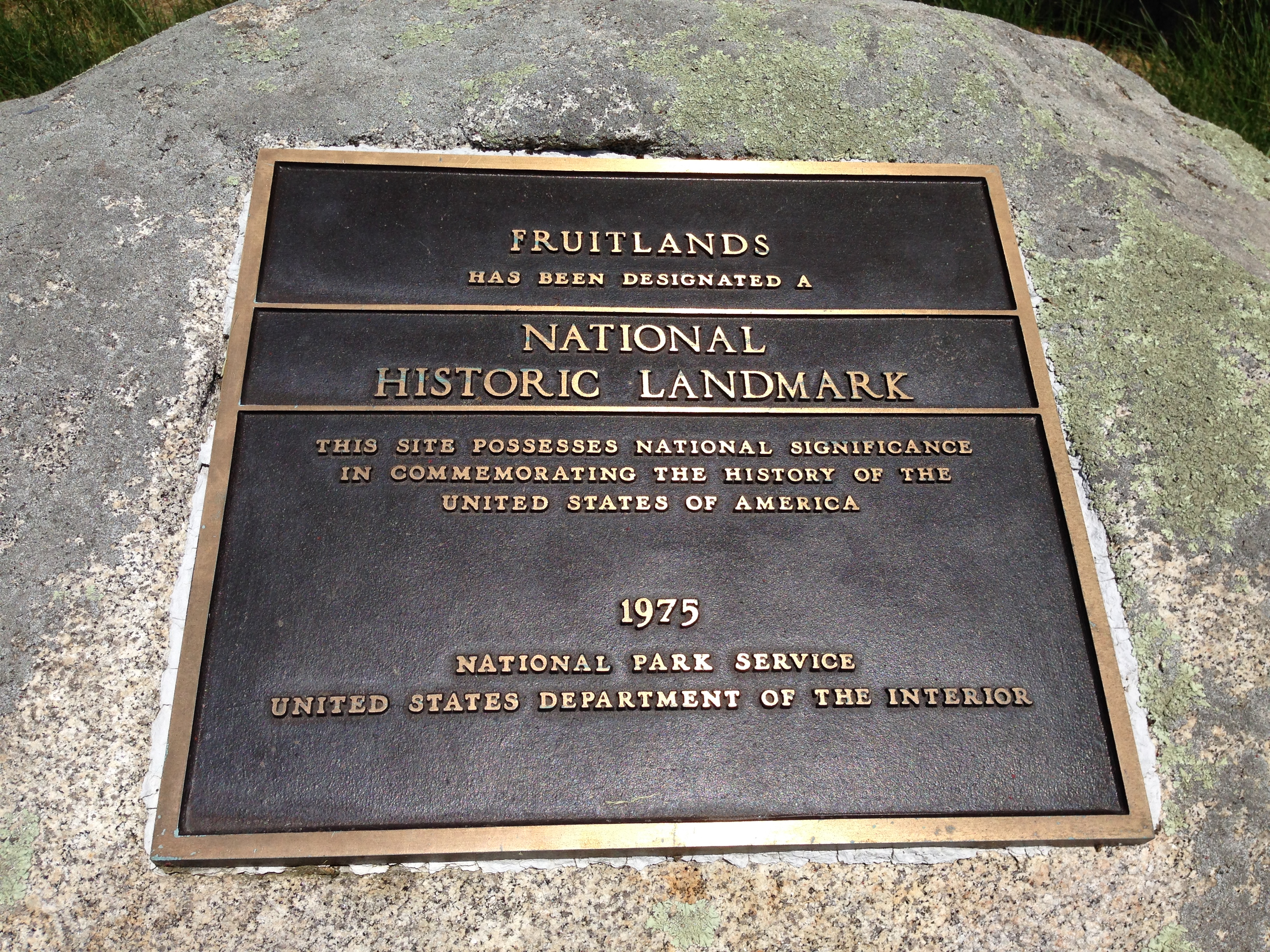 Historical marker at the Alcott House at Fruitlands, Harvard, Massachusetts, 2015